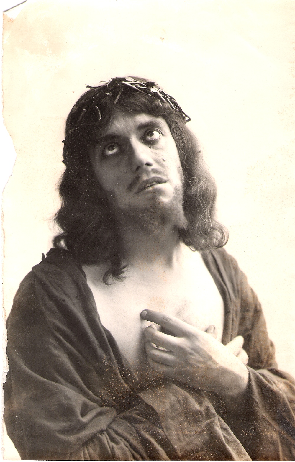 Roberto Viglione (Nova Iorque, 1919)